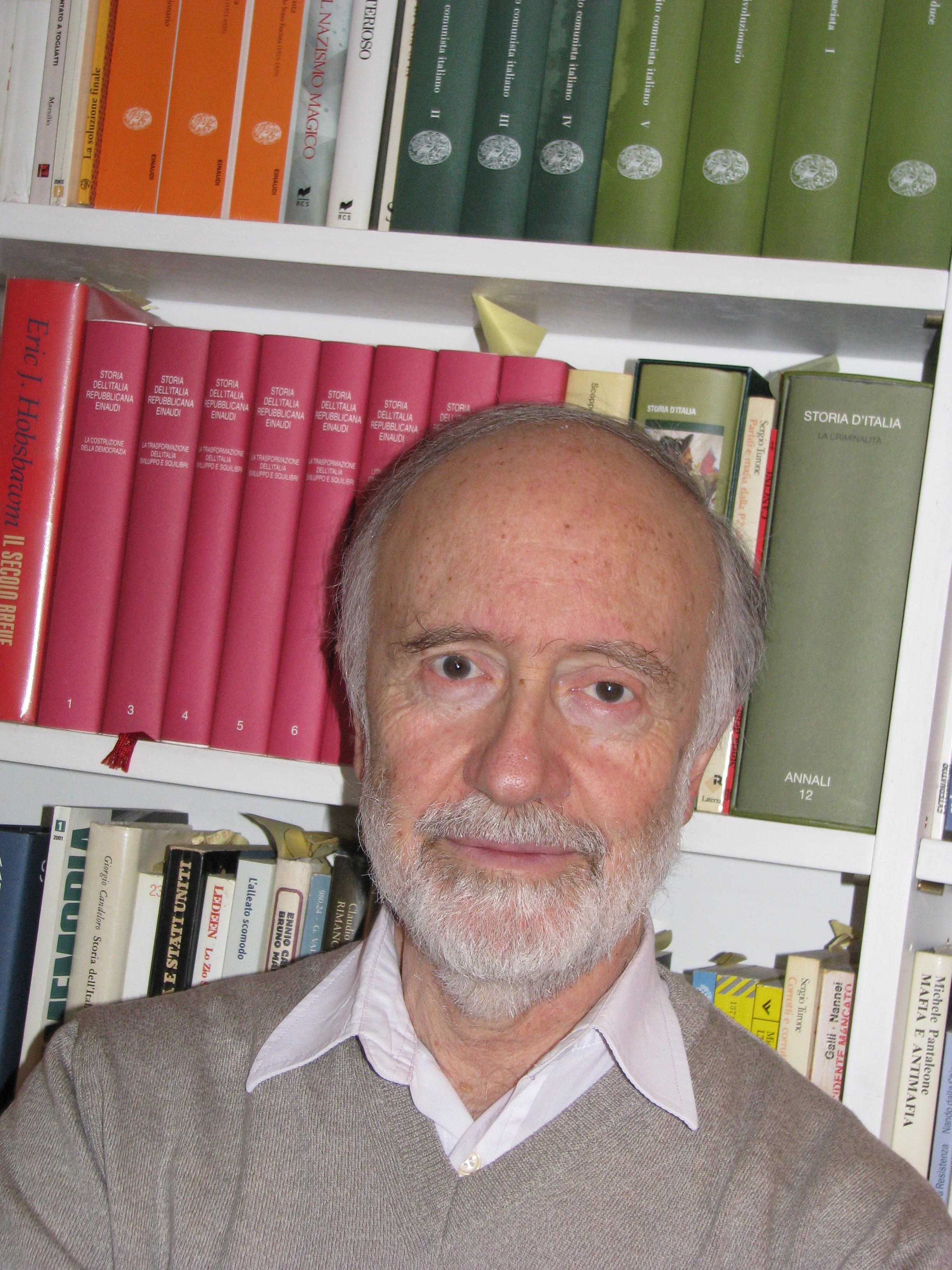 Giuseppe De Lutiis